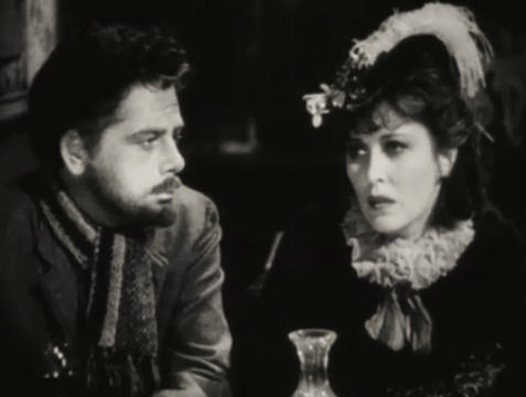 Paul Muni and Erin O'Brien-Moore in The Life of Emile Zola (1937) - trailer (cropped screenshot)